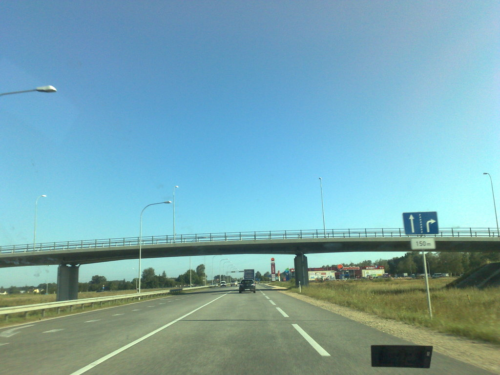 Latvian National Highway A1 near Ādaži.